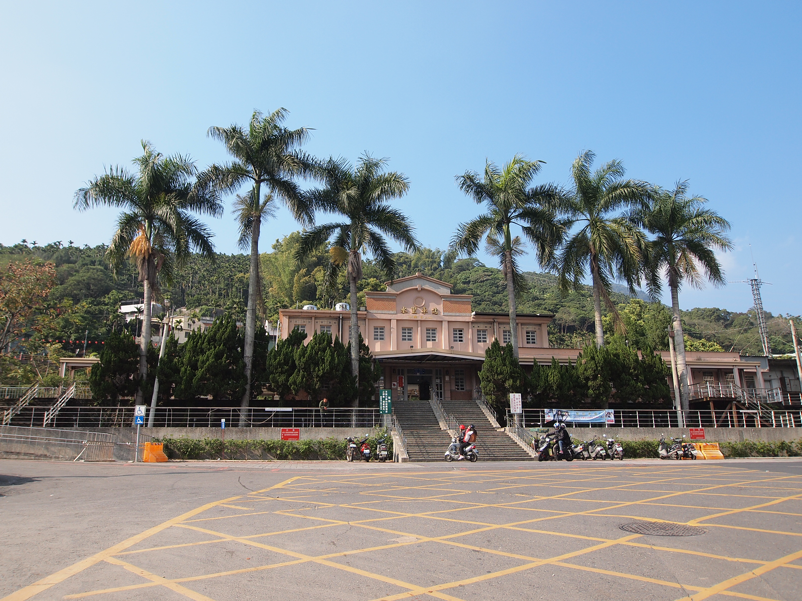 水里火车站 - Shuili Railway Station - 2012.01